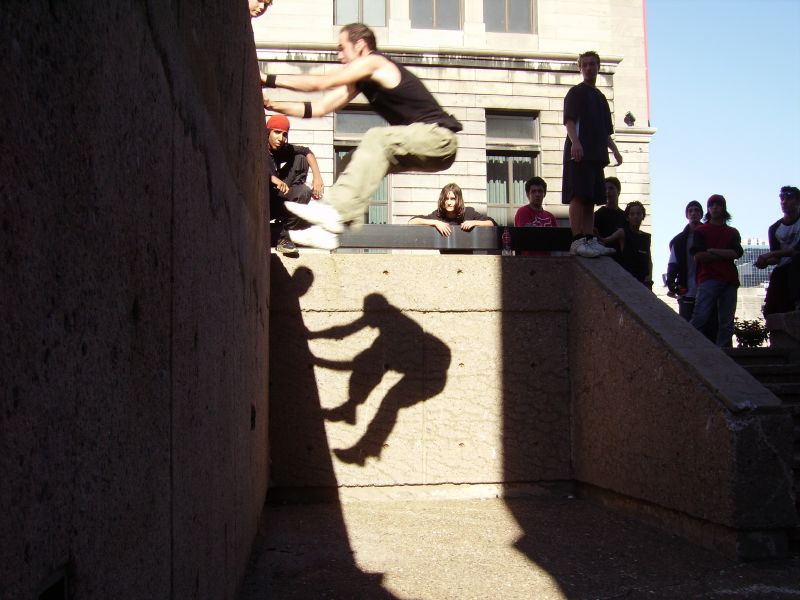 ParkourMontrealPK-Oct02-2005094